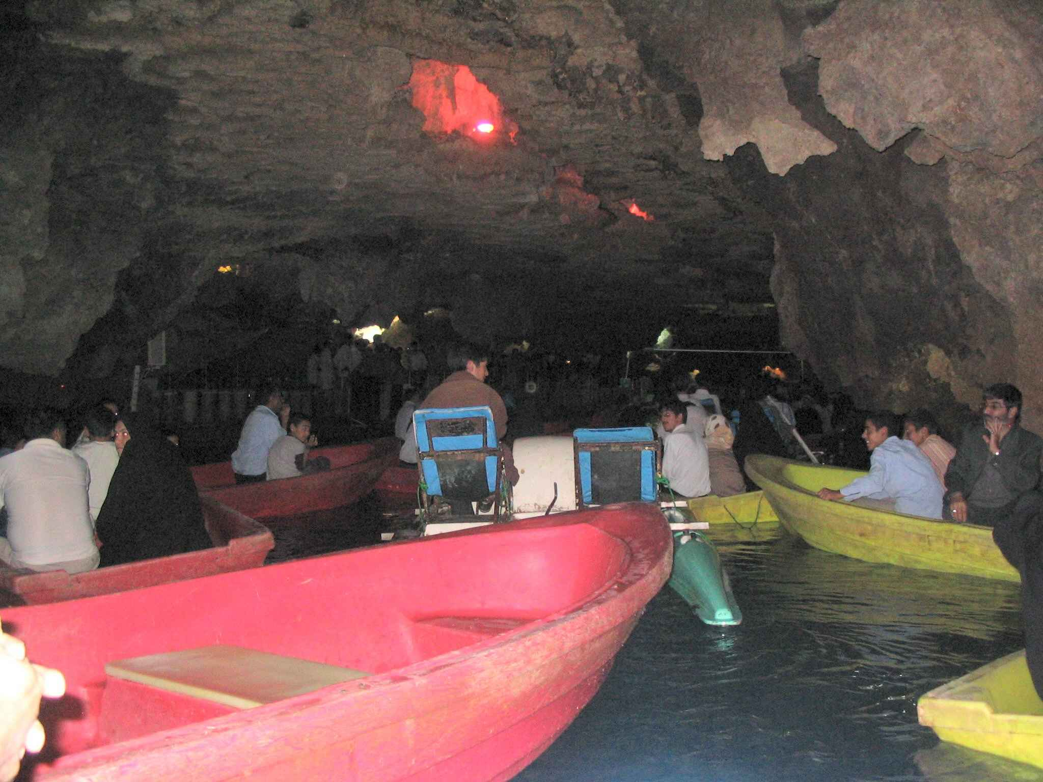 Ali Sadr Cave, Hamadan Province, Western Iran